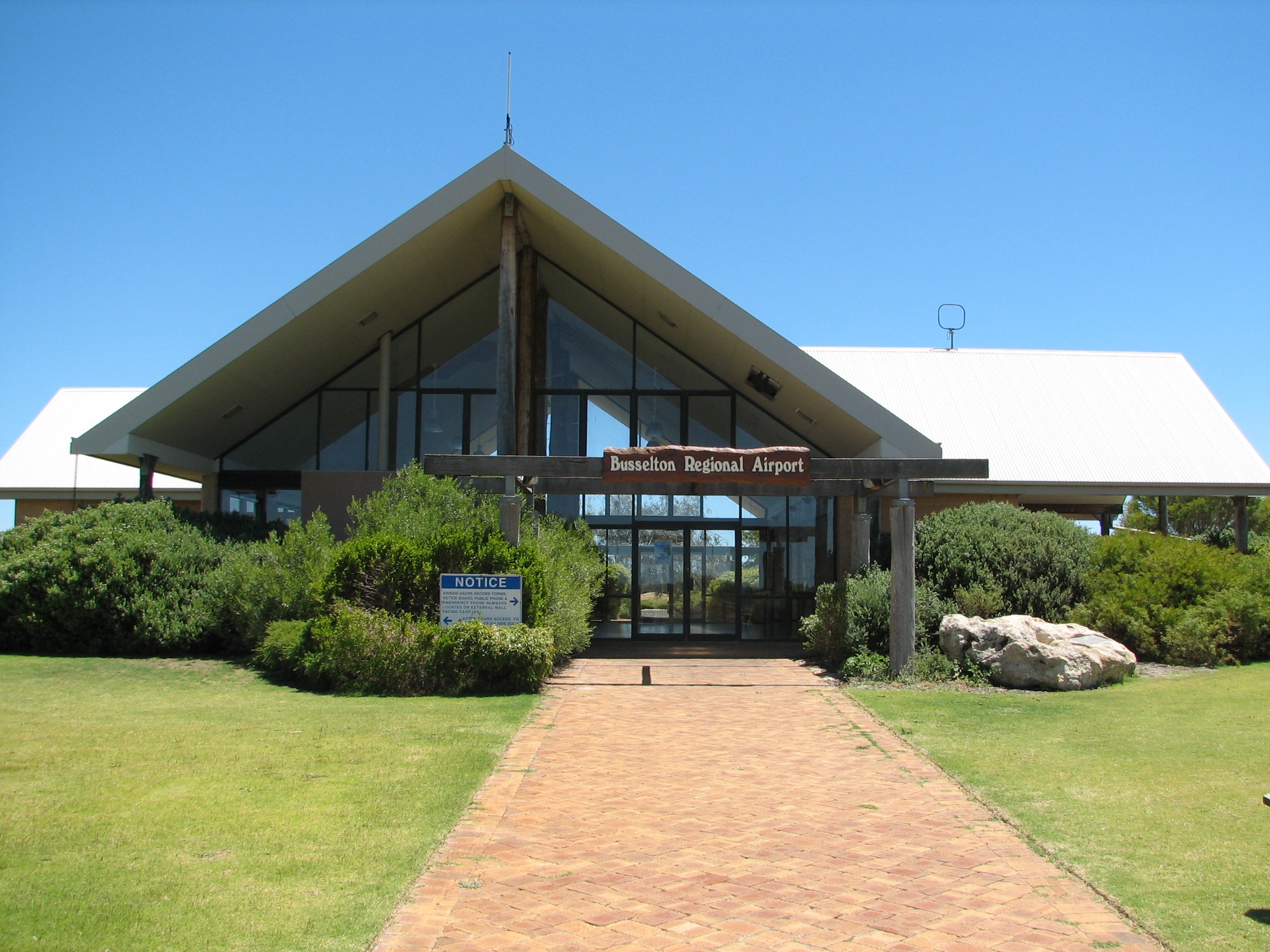 taken by VH-WAC the brother Hossen27 who took it on 5th February 2006 at Busselton Regional Airport